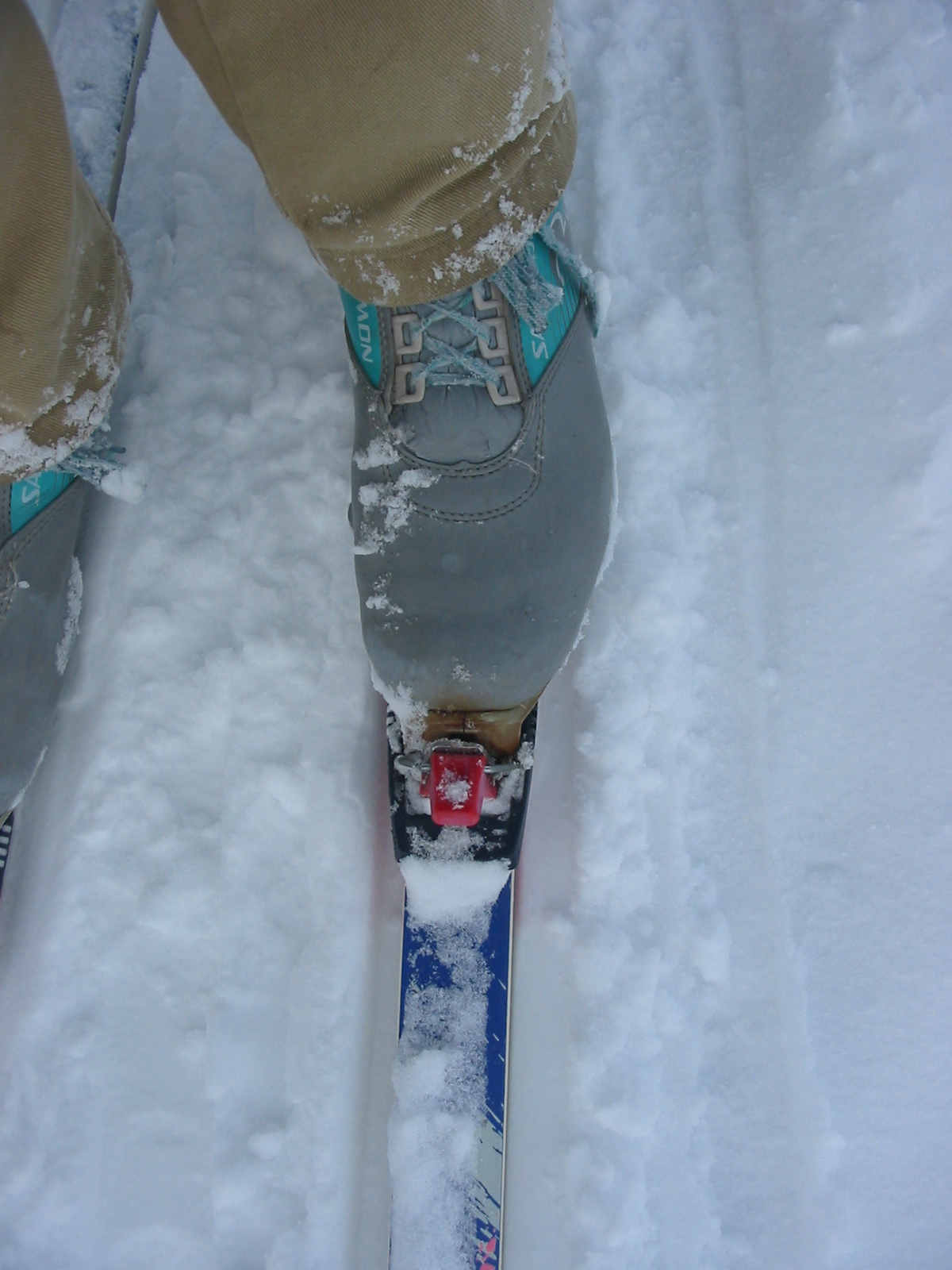 Cross-country skiing, bindings